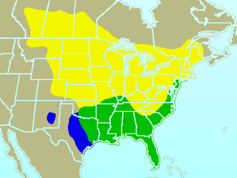 Approximate range/distribution map of the Brown Thrasher (Toxostoma rufum). In keeping with WikiProject: Birds guidelines, yellow indicates the summer-only range, blue indicates the winter-only range, and green indicates the year-round range of the species.